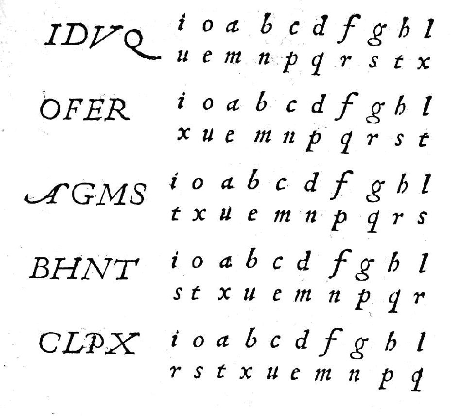 Giovan Battista Bellaso reciprocal table, keyword IOVE from a 1564 book